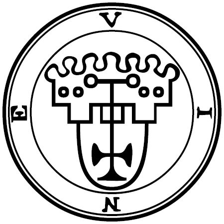 Vine seal, THE BOOK OF THE GOETIA OF SOLOMON THE KING (1904)